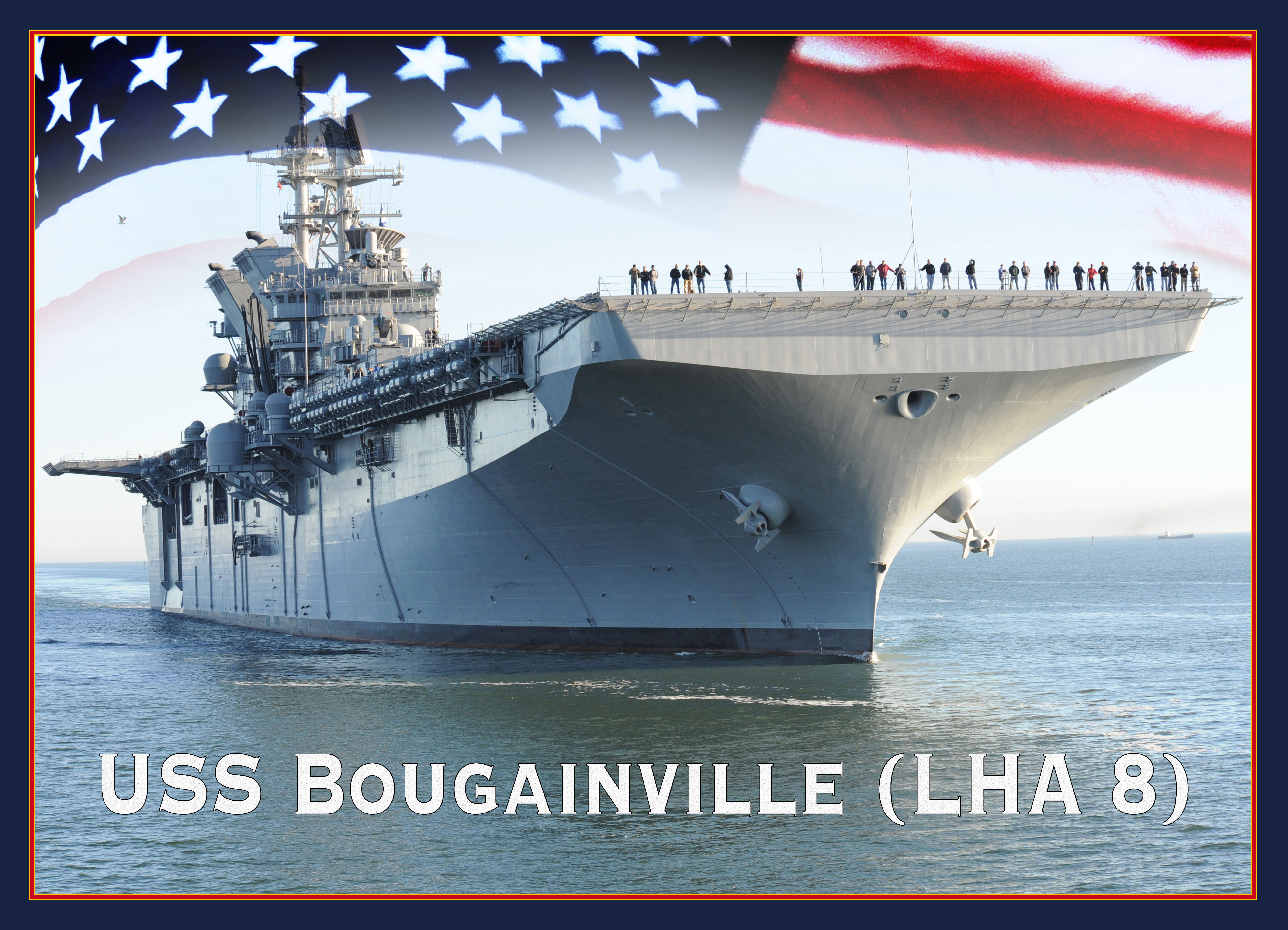 161108-N-LV331-002 WASHINGTON (Nov. 8, 2016) A graphic representation of the future USS Bougainville (LHA 8). (U.S. Navy photo illustration by Petty Officer 1st Class Armando Gonzales/Released)